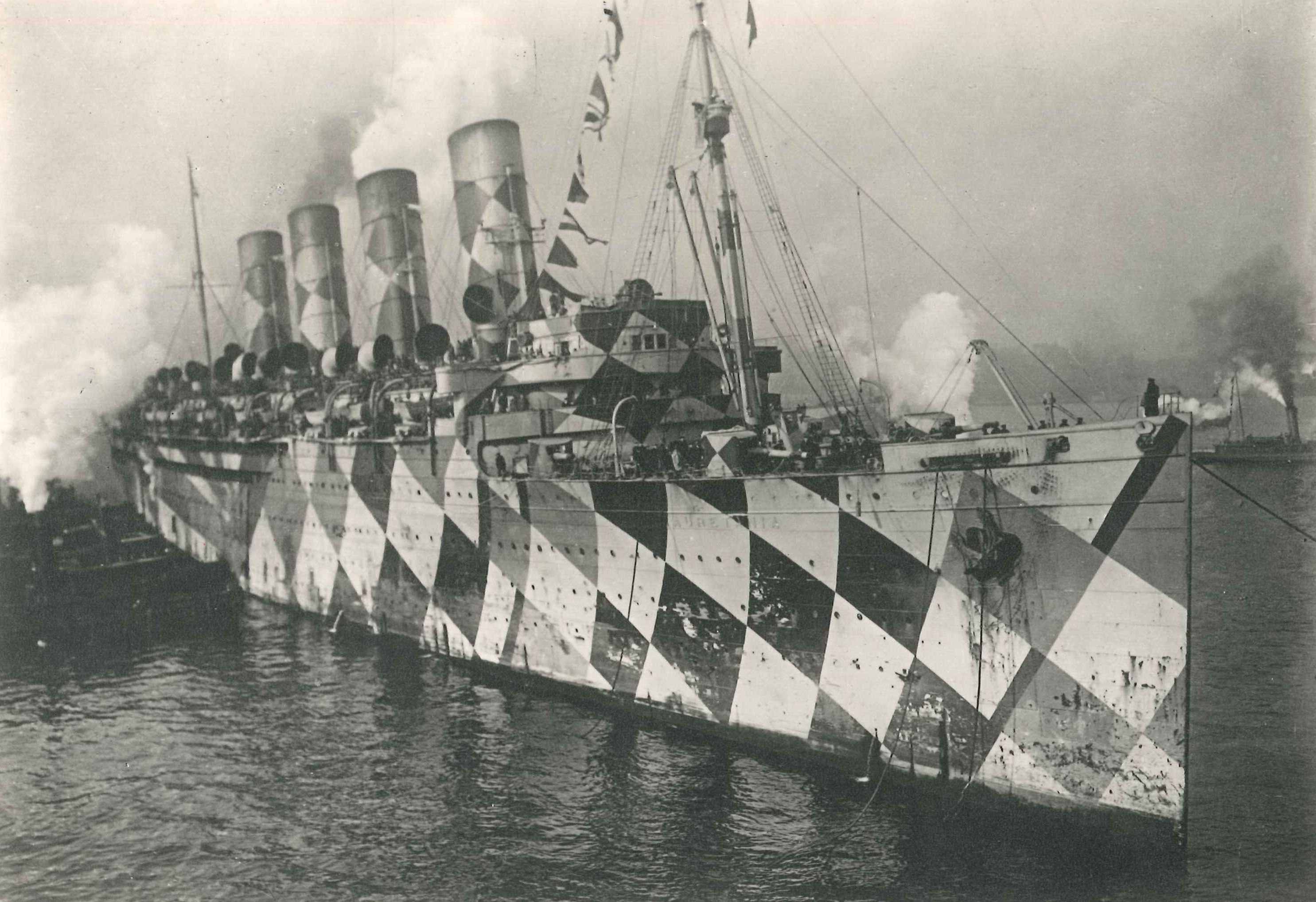 RMS Mauretania bringing troops home from Europe